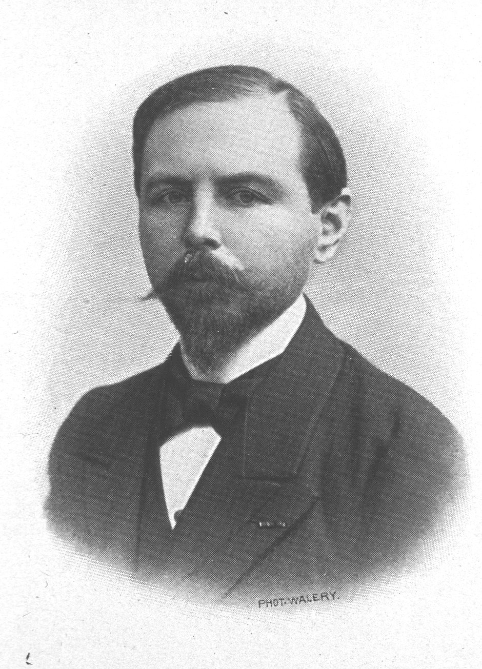 (Lightened and cropped with GIMP). Collection: Images from the History of Medicine (NLM) Title: Professeur Gilbert Subject (Keyword): Gilbert, Nicholas Augustin 1858-1927 Subject (Genre): Portraits Publication Information: Deschiens., 19--. Copyright Statement: The National Library of Medicine believes this item to be in the public domain. Order No.: B012532 Physical Description: 1 photomechanical reproduction : halftone. Image Description: Head and shoulders, left pose, full face. Note (General): Professional references in French. Note (General): Portrait no. 1 Language: fre Restrictions on Access: HMD provides access to digital images in lieu of originals when electronic copies exist. Access to originals may require advance notice. Please see HMD Reference Librarian for more information. Source of Acquisition: Gift. Dr. Lassalle. 1953. URL: Call Number: Portrait no. 1 Record UI: 101415755